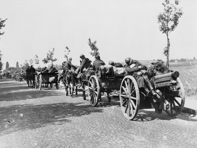 The British Expeditionary Force (bef) in France 1939-1940 Refugees: Belgian soldiers join civilians in retreating along the Brussels-Louvain road.